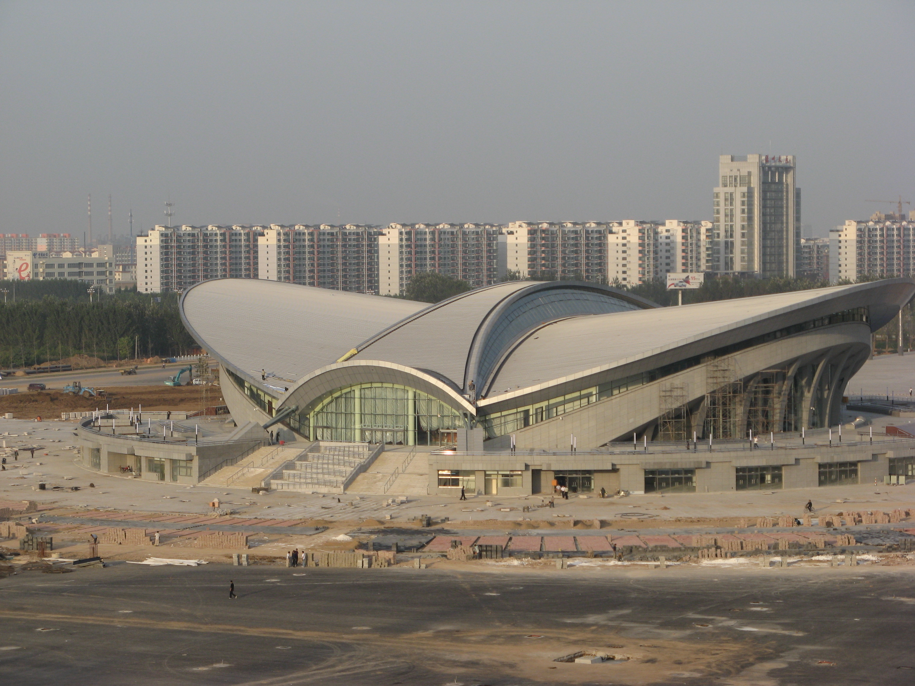 Cangzhou StadiumTagalog: Estadyo ng Cangzhou